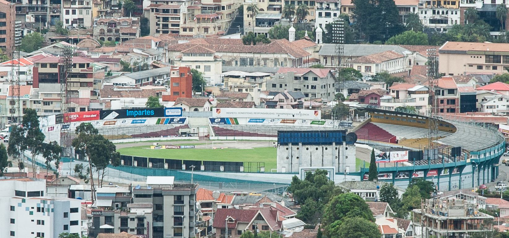 The stadium in Cuenca (Ecuador) seen from Turi.